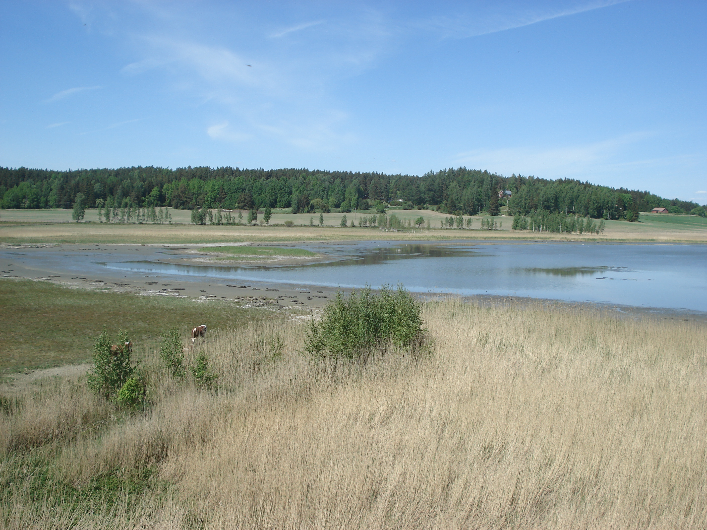 Kuusistonlahti at Kaarina, Finland.